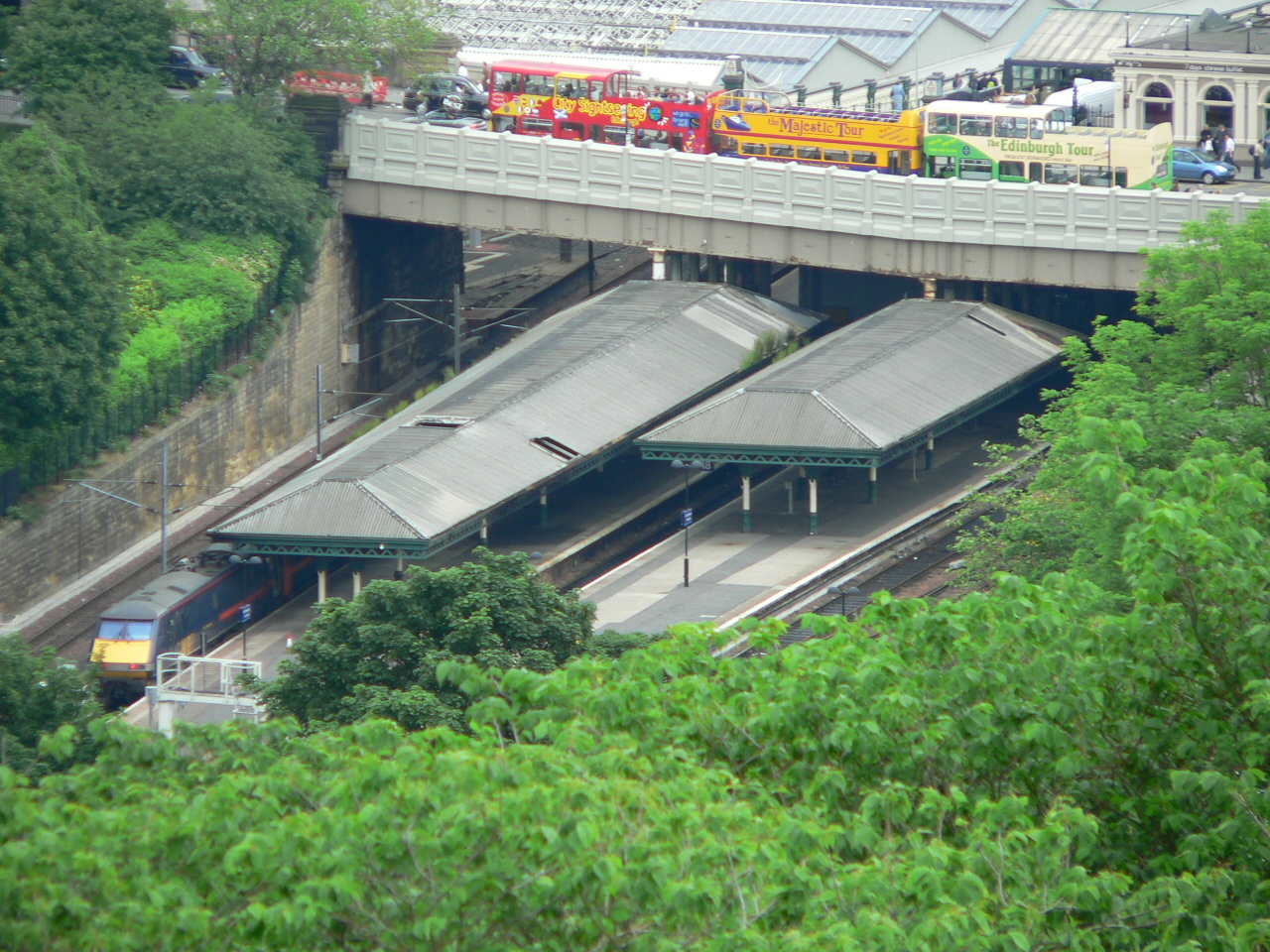 A GNER Intercity 225 stands at Edinburgh Waverley station with a southbound service. This photograph was taken from Edinburgh Castle. Note the three open-top bus tours parked nose-to-tail on the bridge over the station.